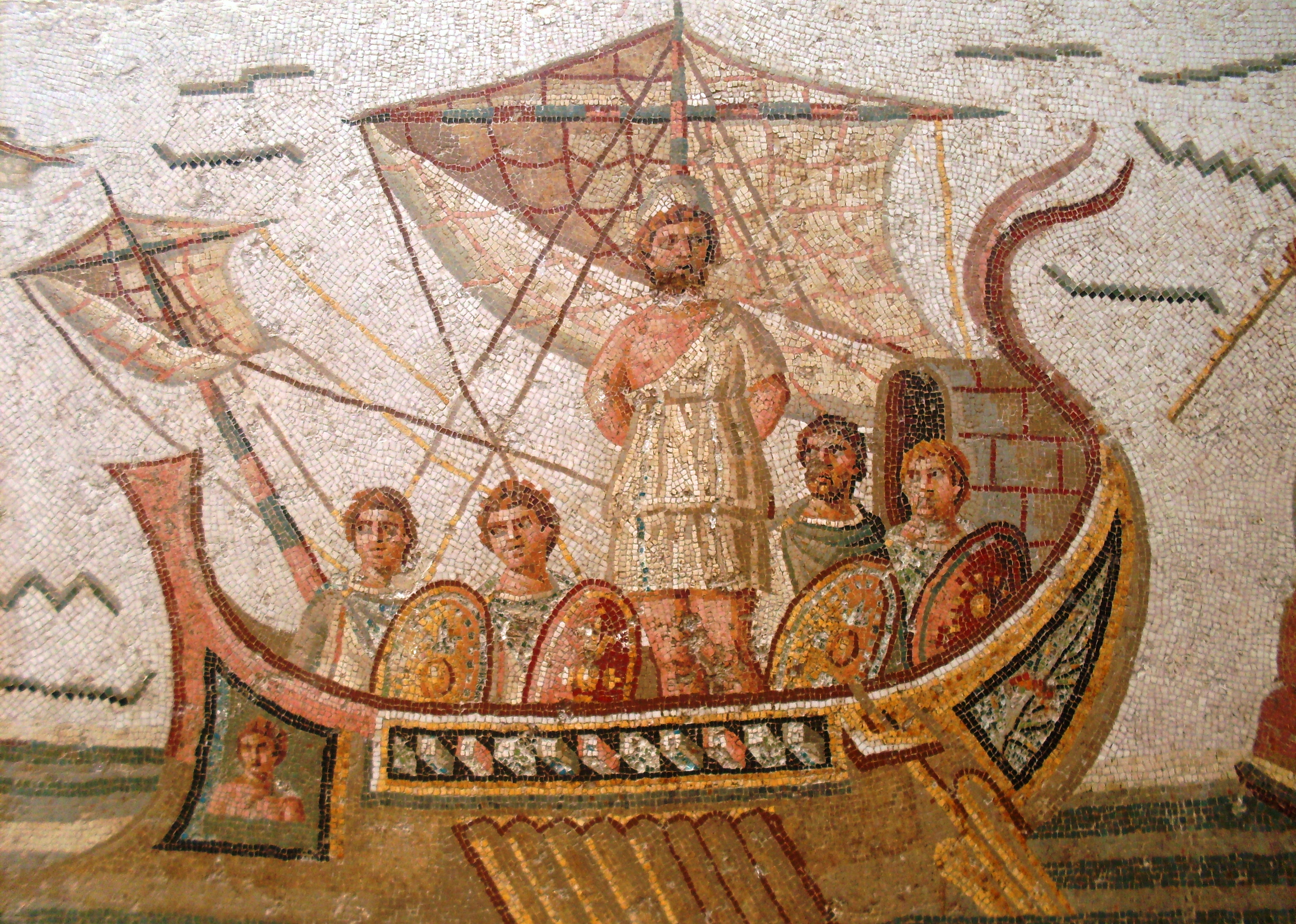 Ulixes mosaic at the Bardo Museum in Tunis, Tunisia. 2nd century AD.